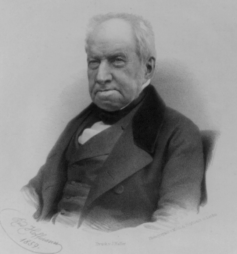 Lithographic portrait of Robert Brown (1773 – 1858), a Scottish botanist and discoverer of Brownian motion. After a photography by Maull and Polyblanck. The lithograph was originally published as part of a folio volume: Lenoir, George André (1860) (in german) Gallerie ausgezeichneter Naturforscher, Vienna, Austria OCLC: 46724612.